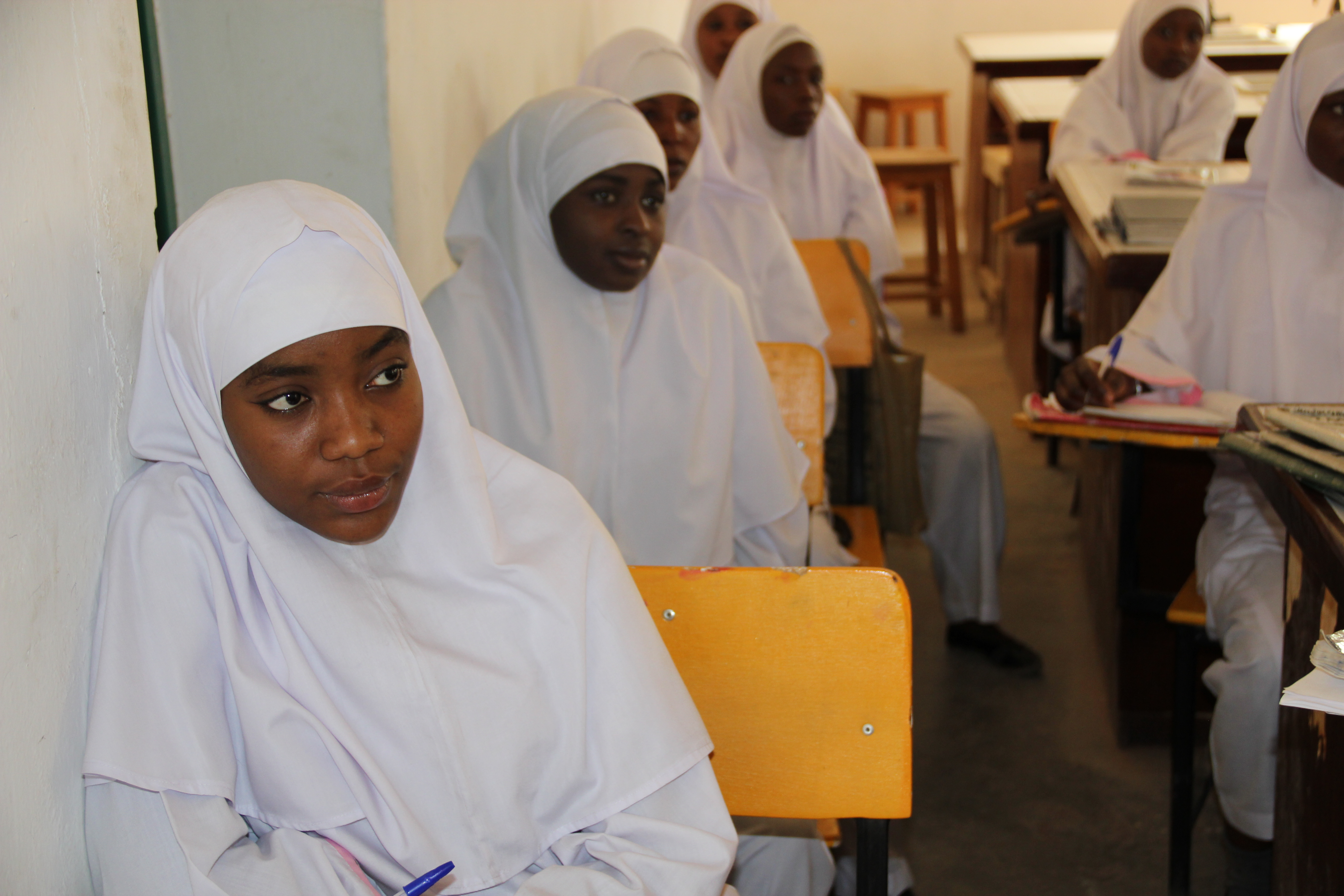 Satara, 21, is a student from Gwiwa in Jigawa. "I wanted to become a midwife in order to save women and children," she says. Her father, who works in healthcare, encouraged her to join the school. Background In Spring 2012, the British Government launched a new scheme – Women for Health – to support 7,000 girls and women to train as health workers in northern Nigeria by 2016. The new skills they learn will help save the lives of thousands of mums, babies and children. Find out more at Picture: Lindsay Mgbor/Department for International Development